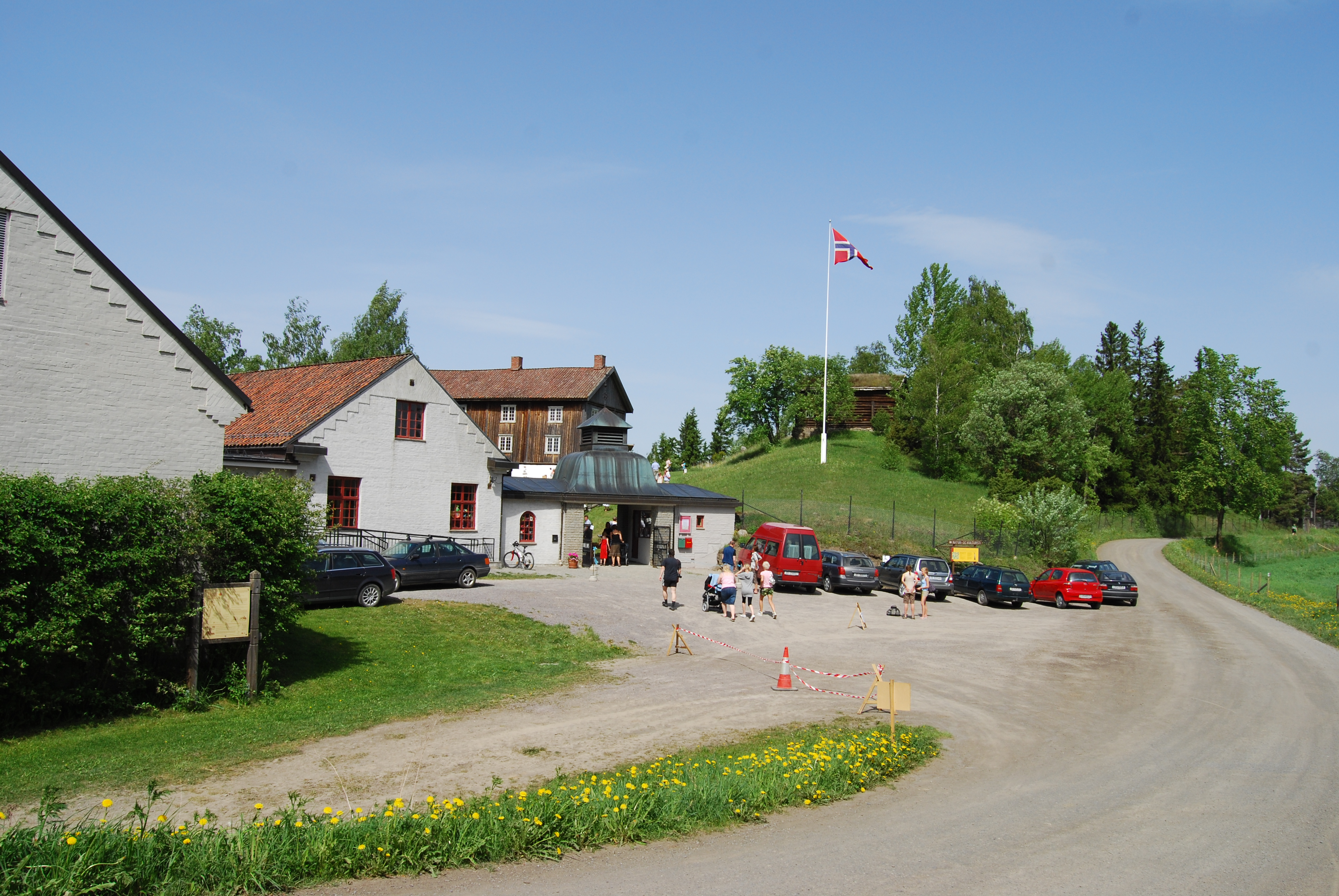 The entrance to Hadeland Folkemuseum